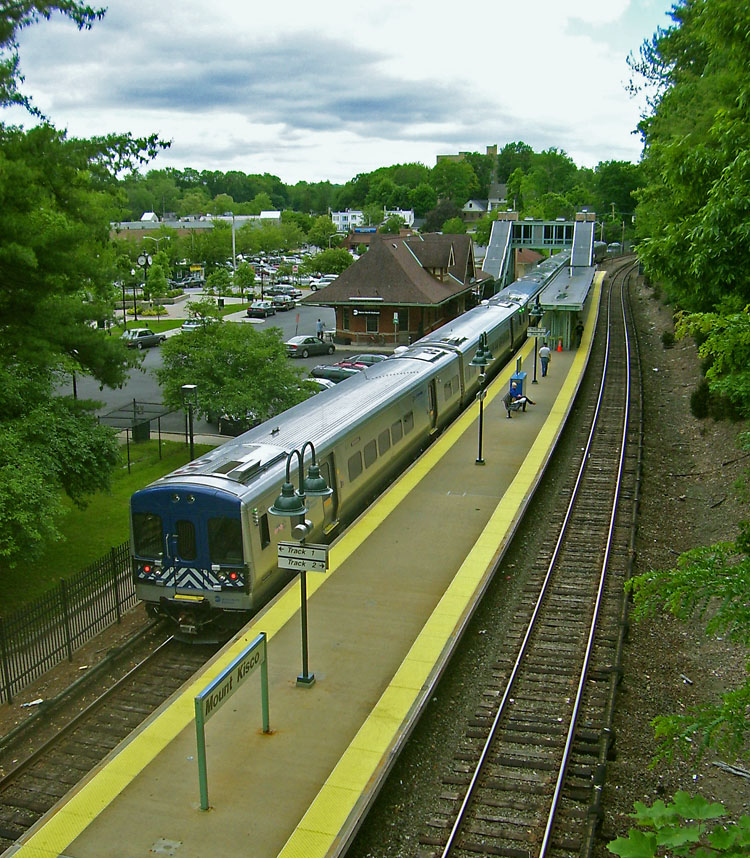 Photographed by Daniel Case 2006-06-10 from the Route 133 overpass north of the station.